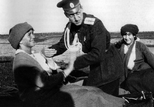 This photograph of Grand Duchesses Maria and Anastasia Nikolaevna of Russia and Grand Duke Dmitri Pavlovich of Russia at Mogilev in 1915 or 1916 is from . Because of its age, I think it is most likely in the public domain. If I'm mistaken, please delete the photo.